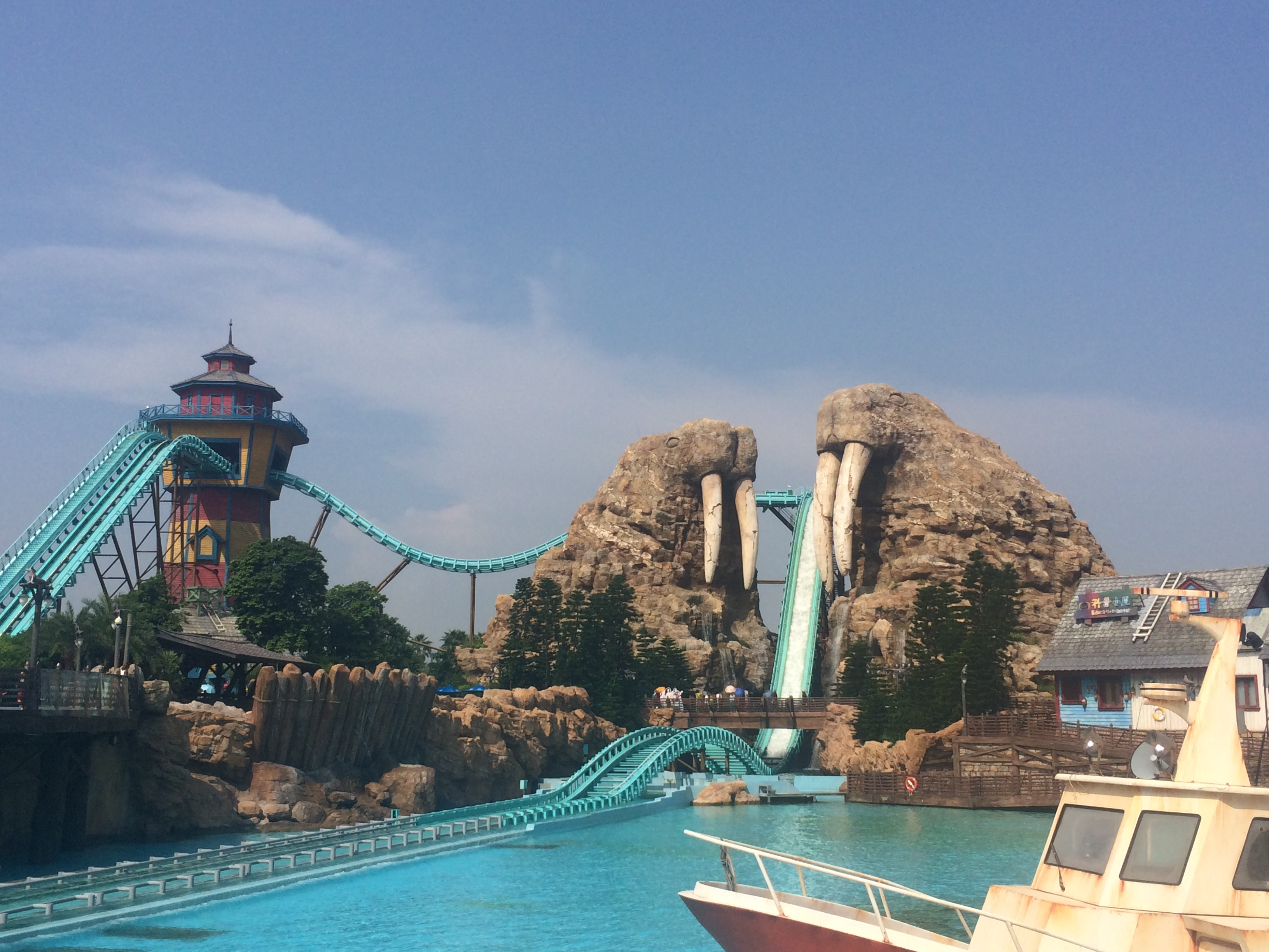 Mt. Walrus in Chimelong Ocean Kingdom